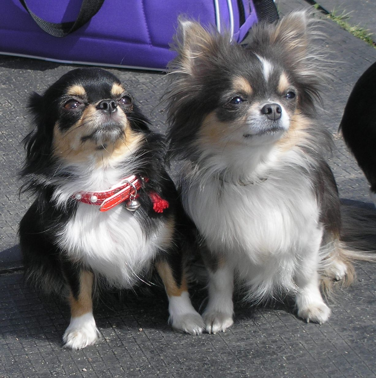 chihuahua long-hair